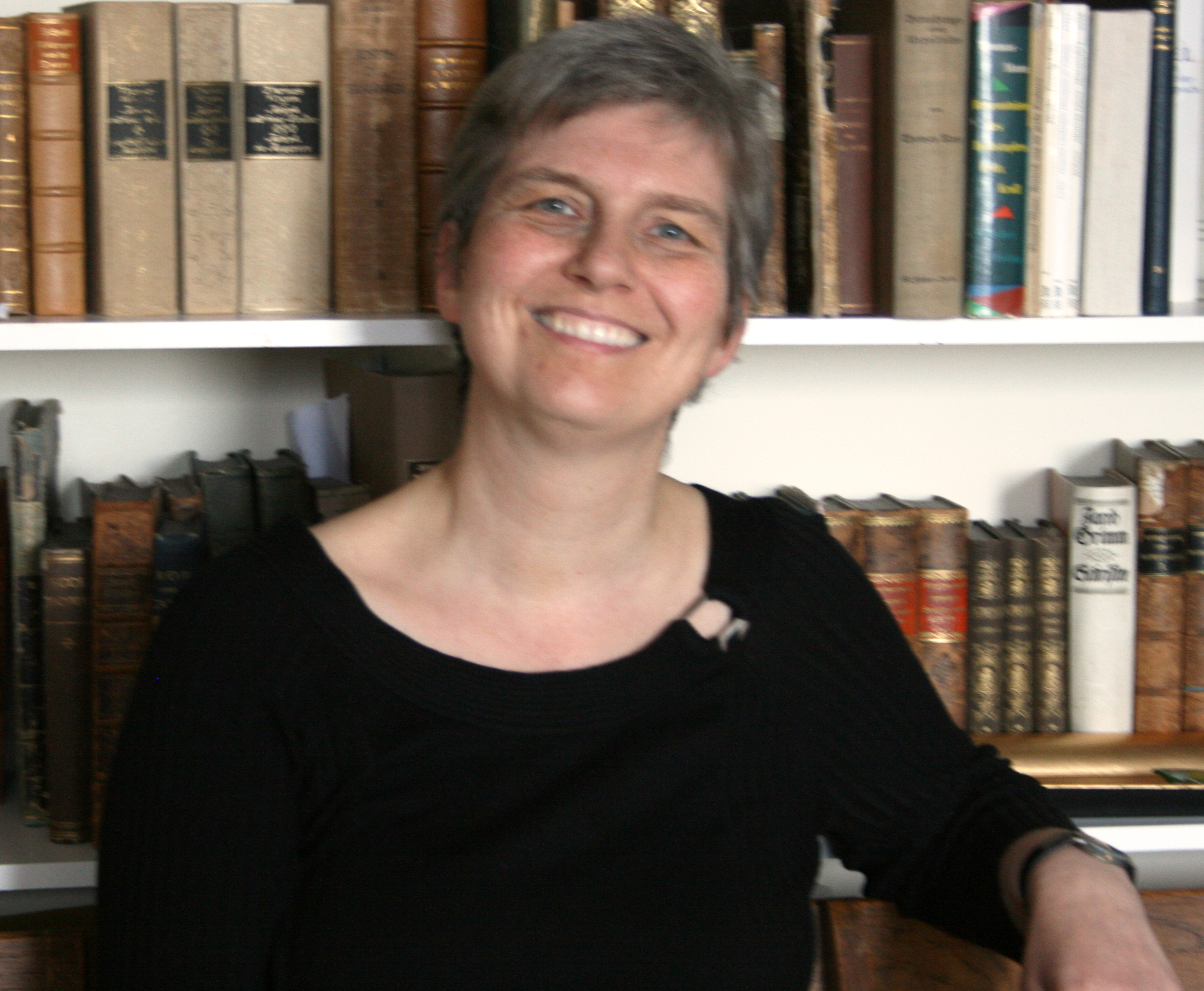 Henrike Lähnemann in 2013